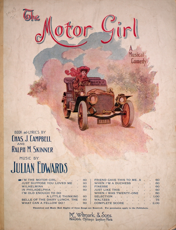 poster for the musical The Motor Girl